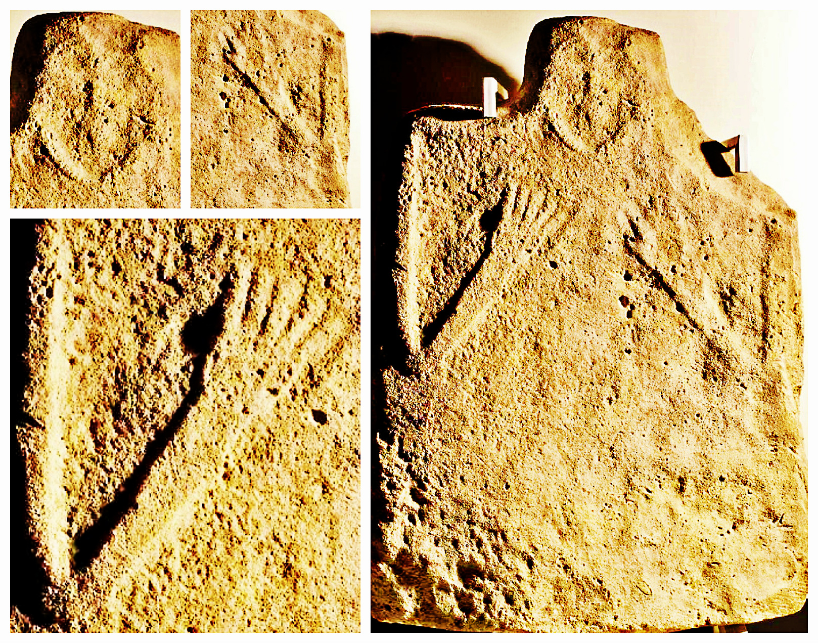 Plachidol Dobritch Stellae BG